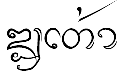 Lanna script: Doi Tao is a district (amphoe) in the southern part of Chiang Mai Province in northern Thailand. Doi Tao is also the name of a mountain in Doi Tao District. Doi Tao is also the name of a mountain in Phaya Mengrai District, Chiang Rai Province. Doi Tao is also the name of a mountain in Doi Luang District, Chiang Rai Province.